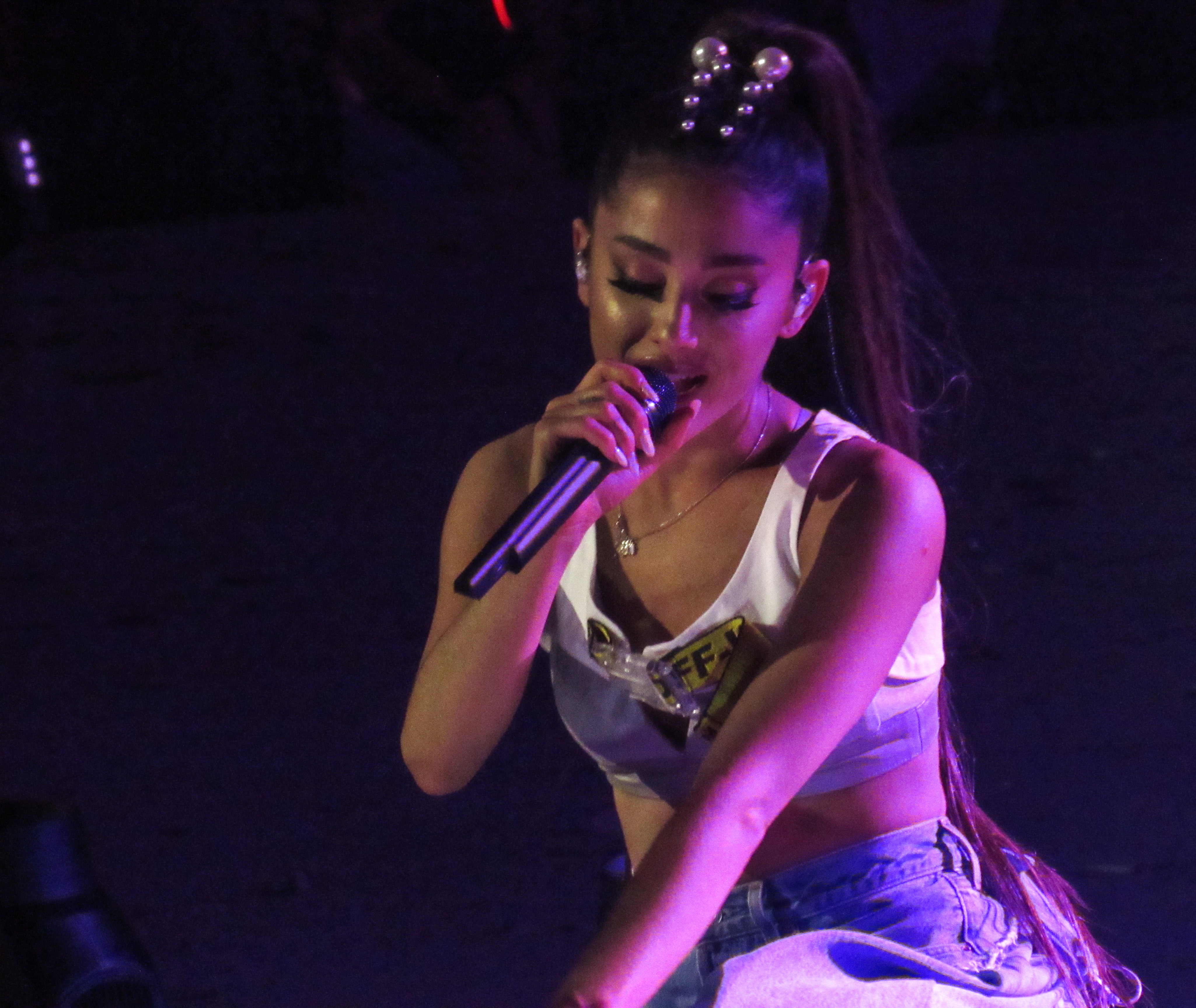 Dangerous Woman Tour 2/19/17 Ariana Grande performing during Dangerous Woman Tour in Manchester, New Hampshire, SNHU Arena, on February 19, 2017.